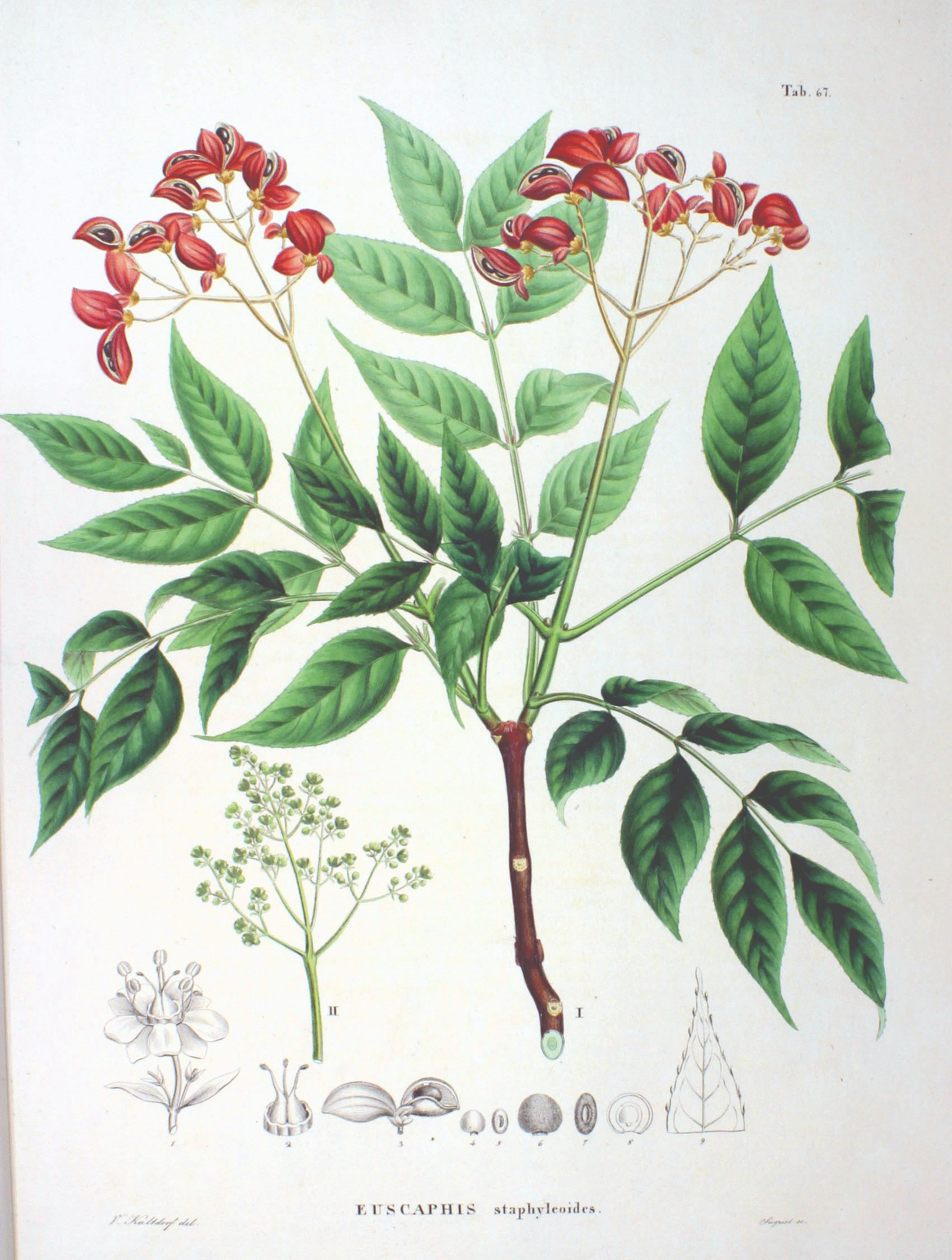 Plate from book